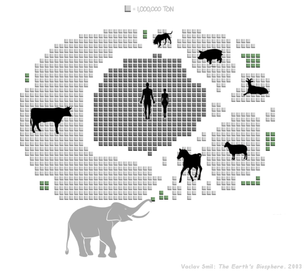 Land mammals by weight. Light grey are livestock & pets, green are another wild animals like elephants. Marine animals are not included.